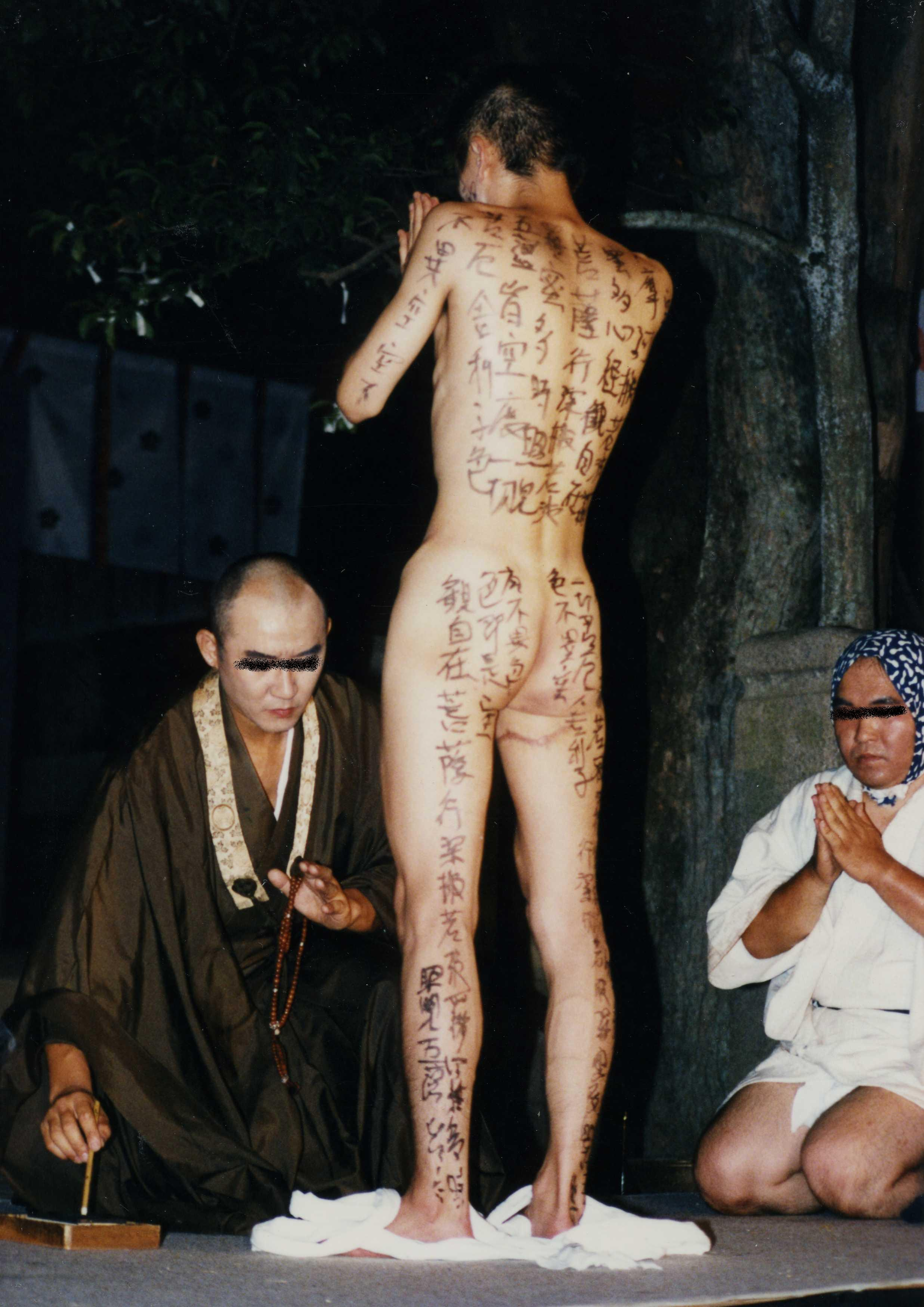 'Hōichi the Earless': an open air play at Suma Temple, Kobe, Japan.